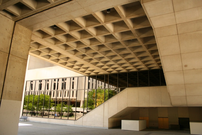 Posvar from Forbes Quad.